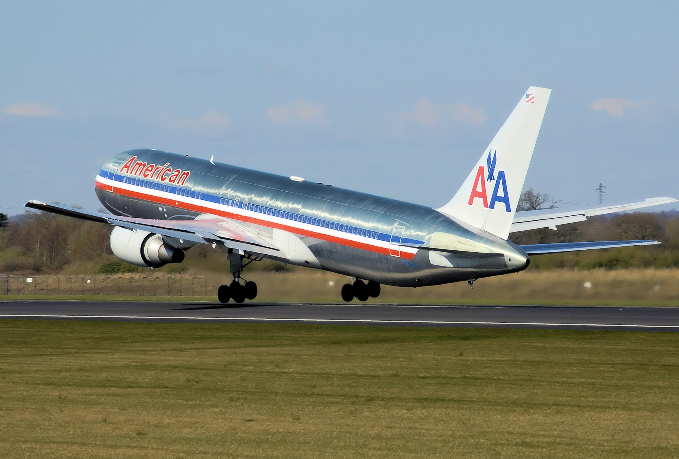 American Airlines Boeing 767-300ER (registration N366AA) takes off from Manchester Airport, England, for Chicago-O‘Hare, USA.